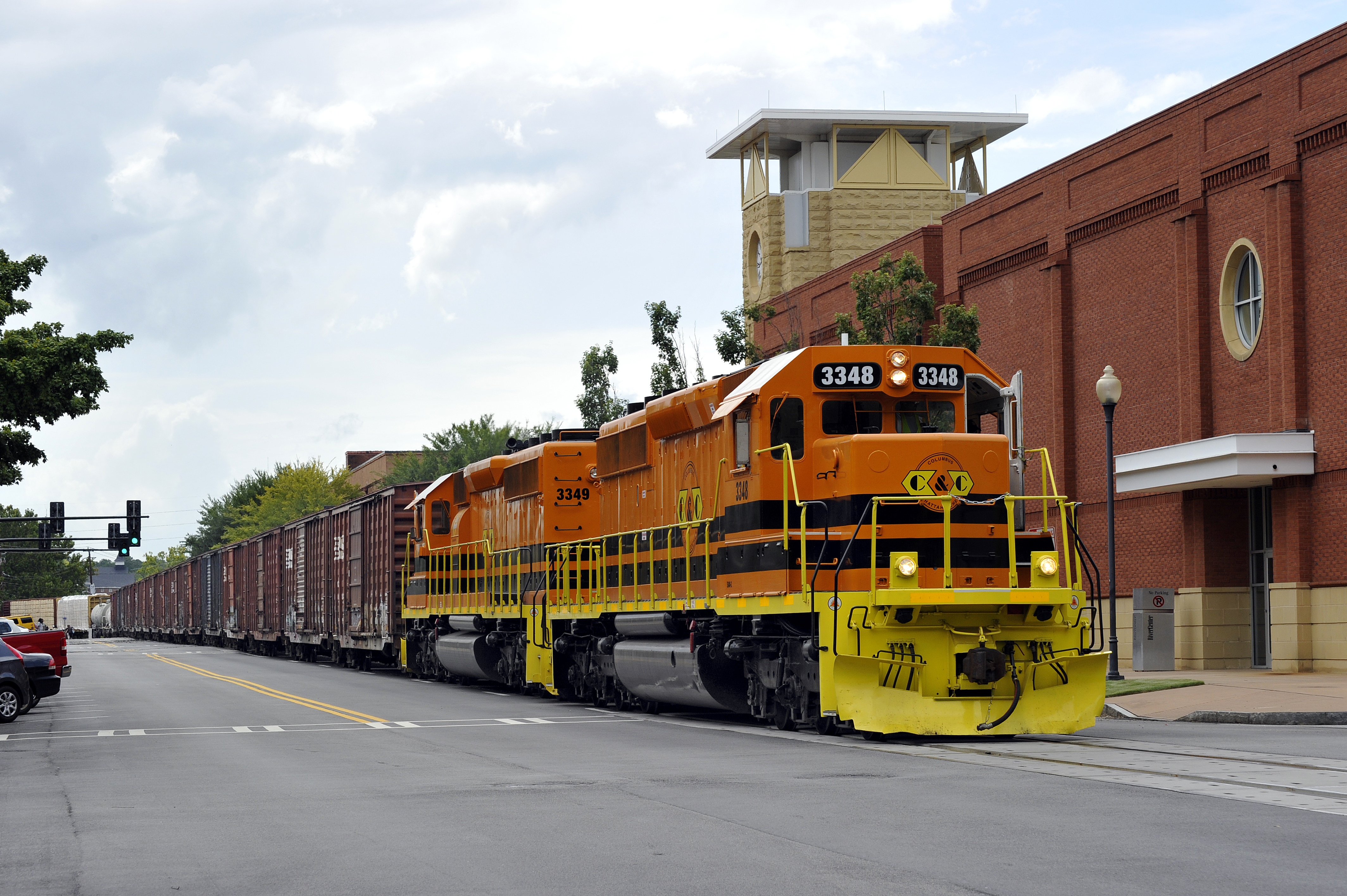 Columbus & Chattahoochee Railroad (CHH) engines 3348 and 3349 on the Mahrt Turn, heading towards Girard, Alabama from the Norfolk Southern Columbus Yard on 9th Street in downtown Columbus, Georgia.